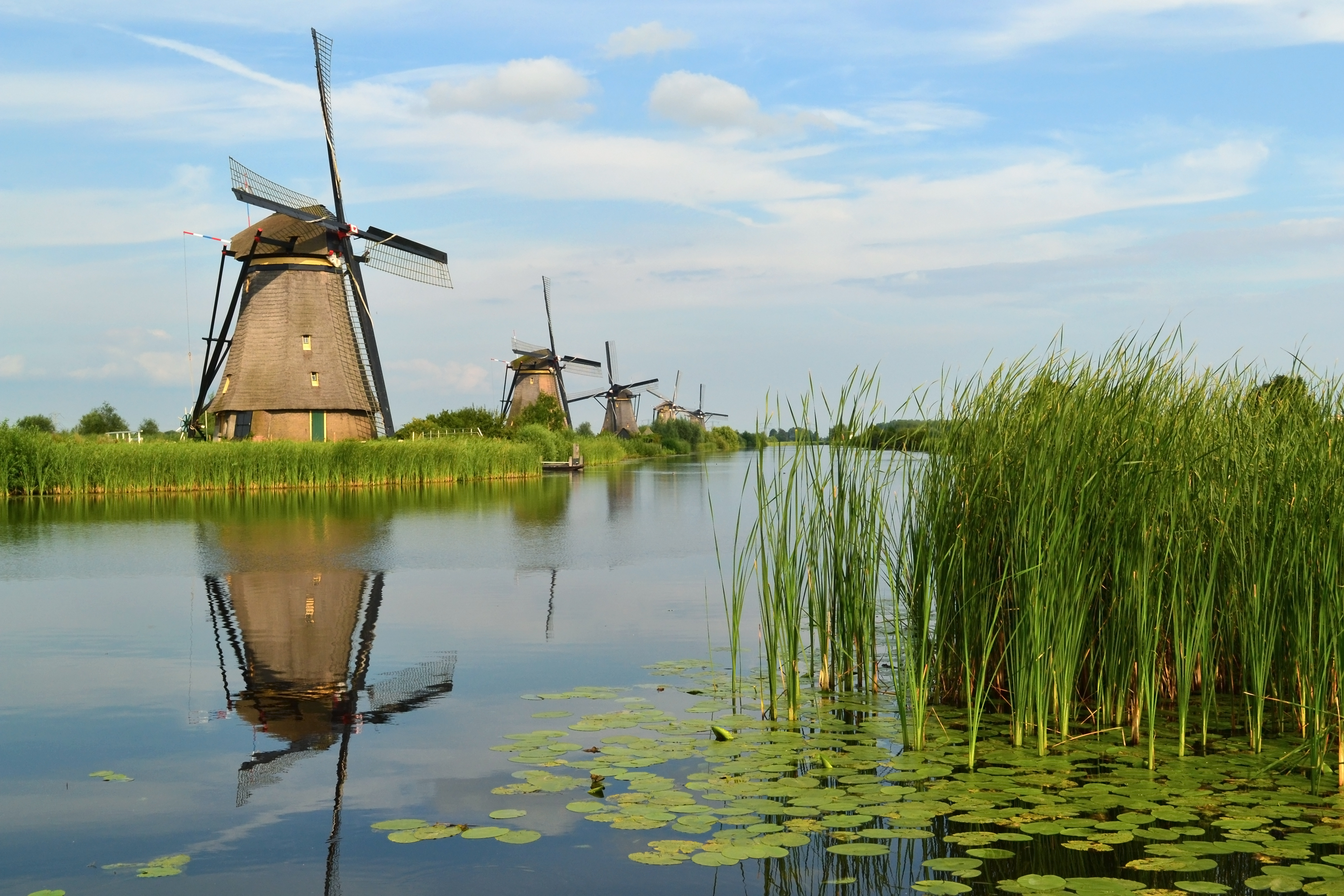 The windmills of Kinderdijk are one of the best known Dutch tourist sites. They have been a UNESCO World Heritage Site since 1997.